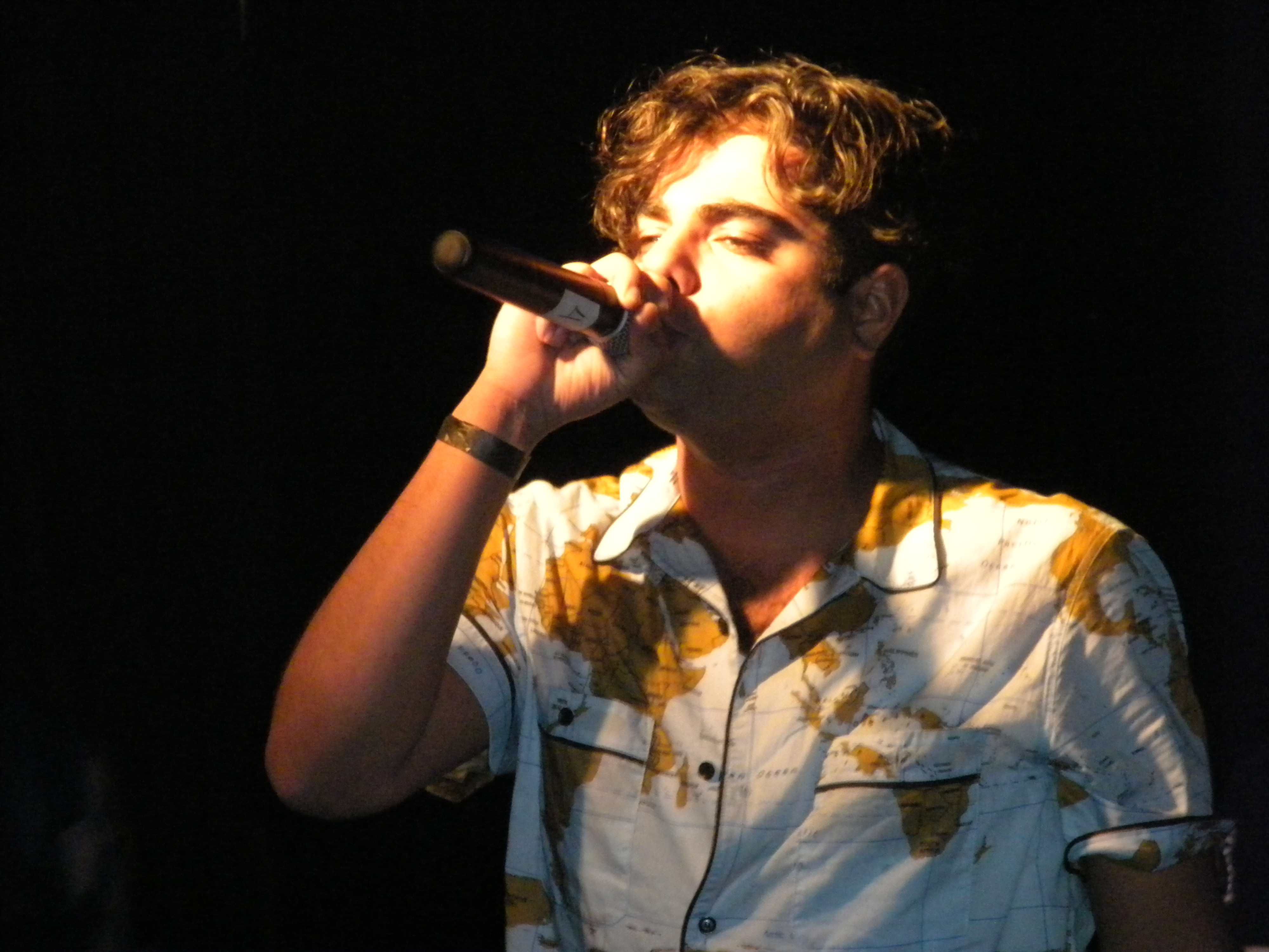 Heems of Das Racist performing in Atlanta, Georgia, at the Vinyl, October 2011.